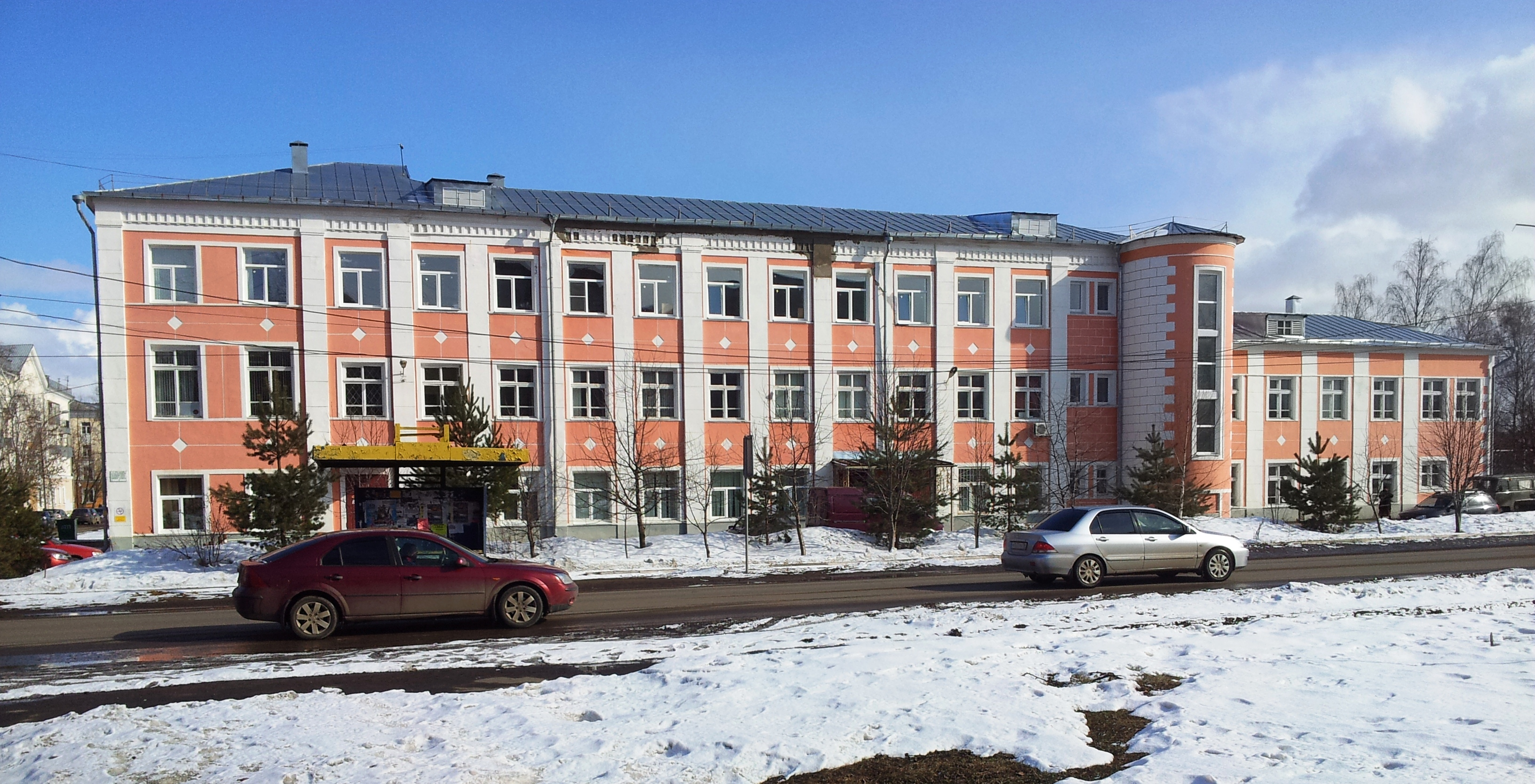 Policlinic №1 in Rybinsk, Russia